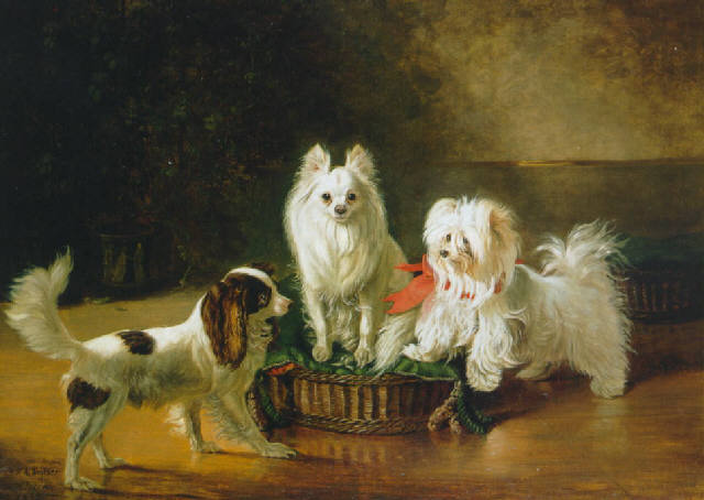 Johann Friedrich Wilhelm Wegener A toy spaniel, a Pomeranian and a Maltese terrier at a basket Oil on Canvas 36,8 x 51 in. / 93,4 x 129,5 cm. 1855